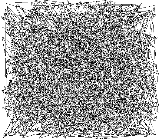 Self-Organizing Map